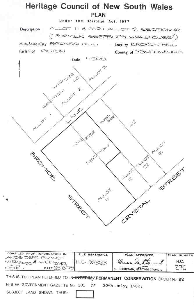 Seppelts Warehouse: PCO Plan Number 082